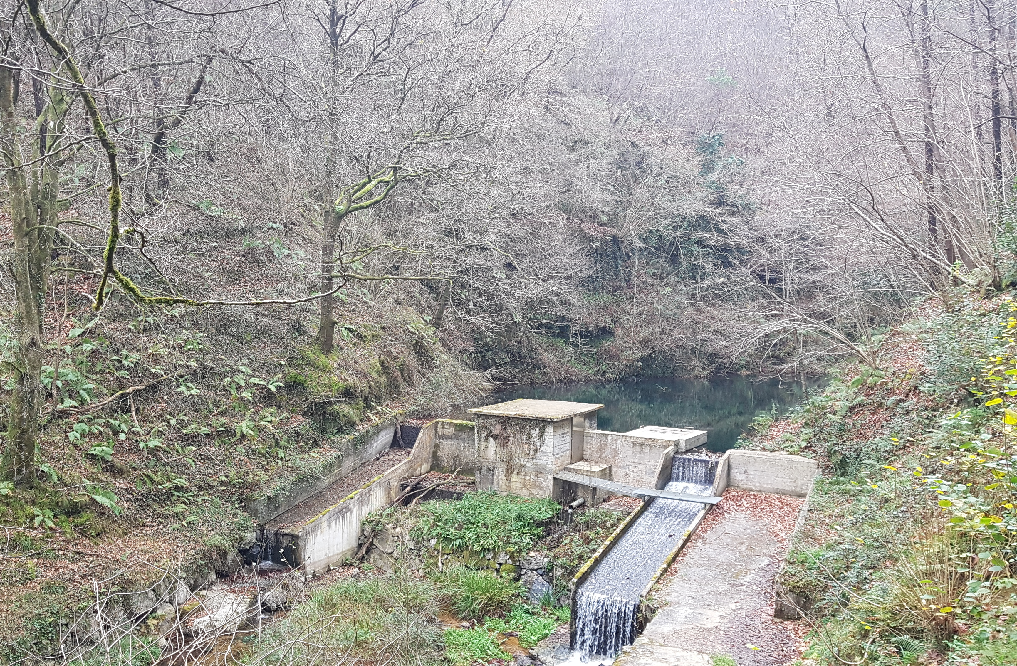 Erroizpe dam in Usurbil (Basque Country)